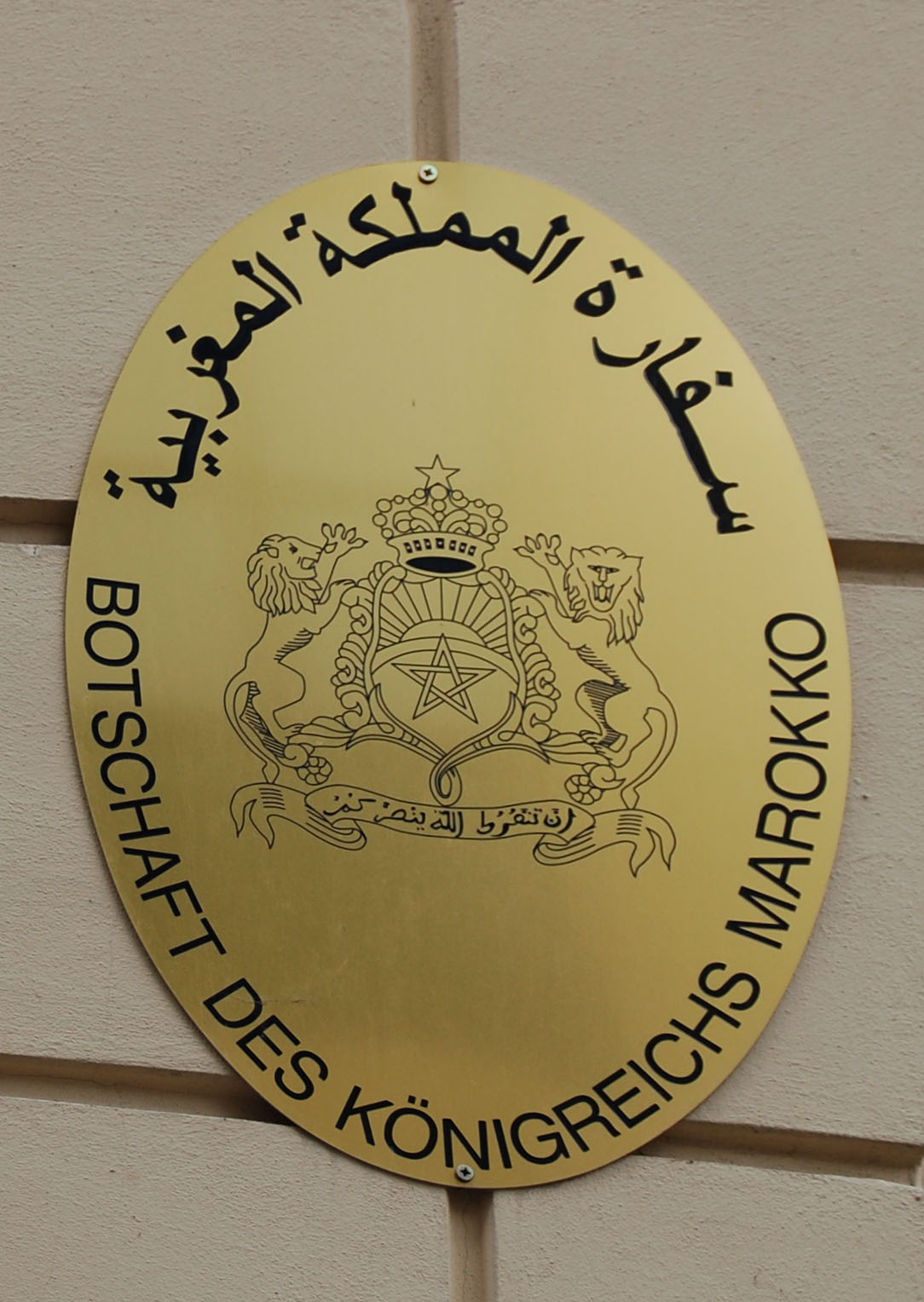 Embassy of Morocco in Berlin